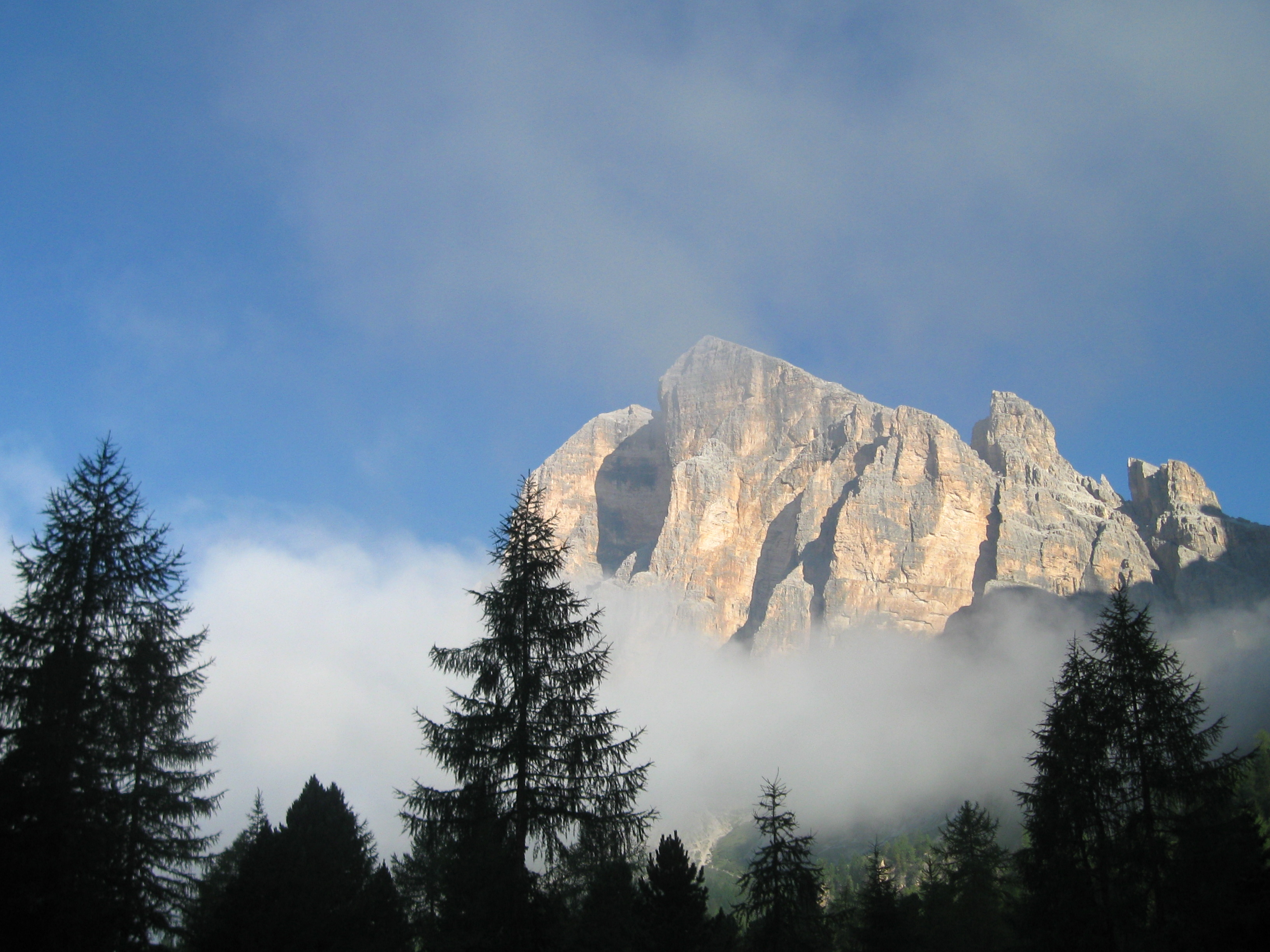 Tafana di Rozes, in a summer mornig